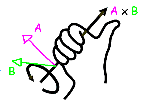 Right hand rule Illustration